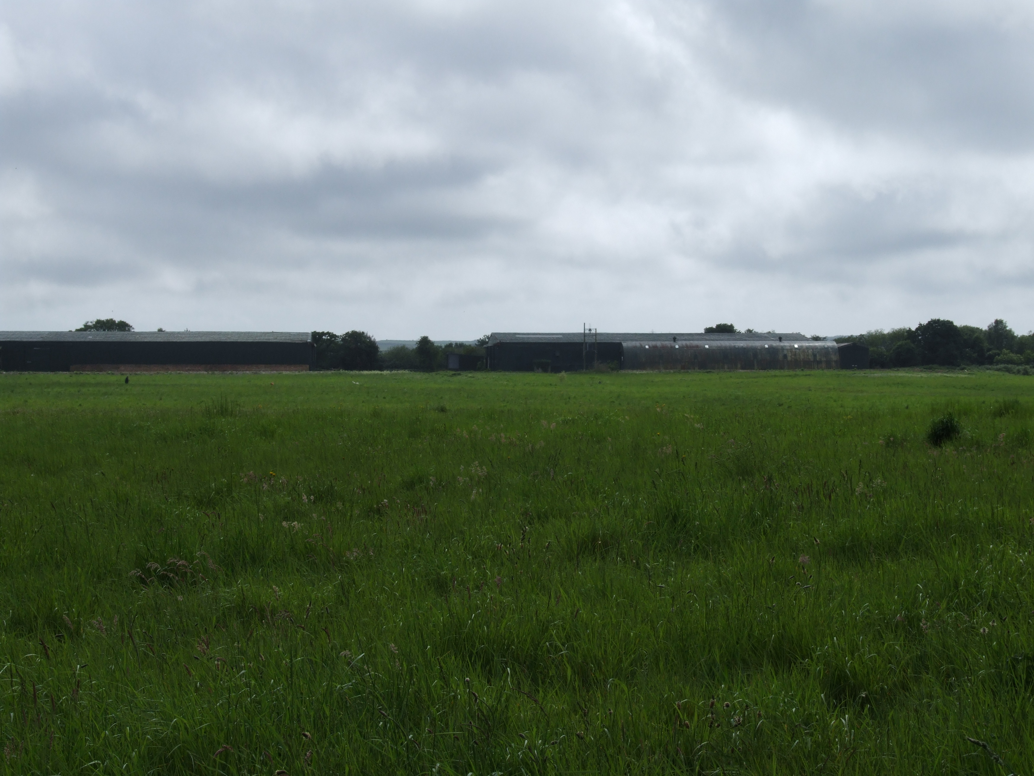 Remaining Bellman hangars on site of RAF Warmwell